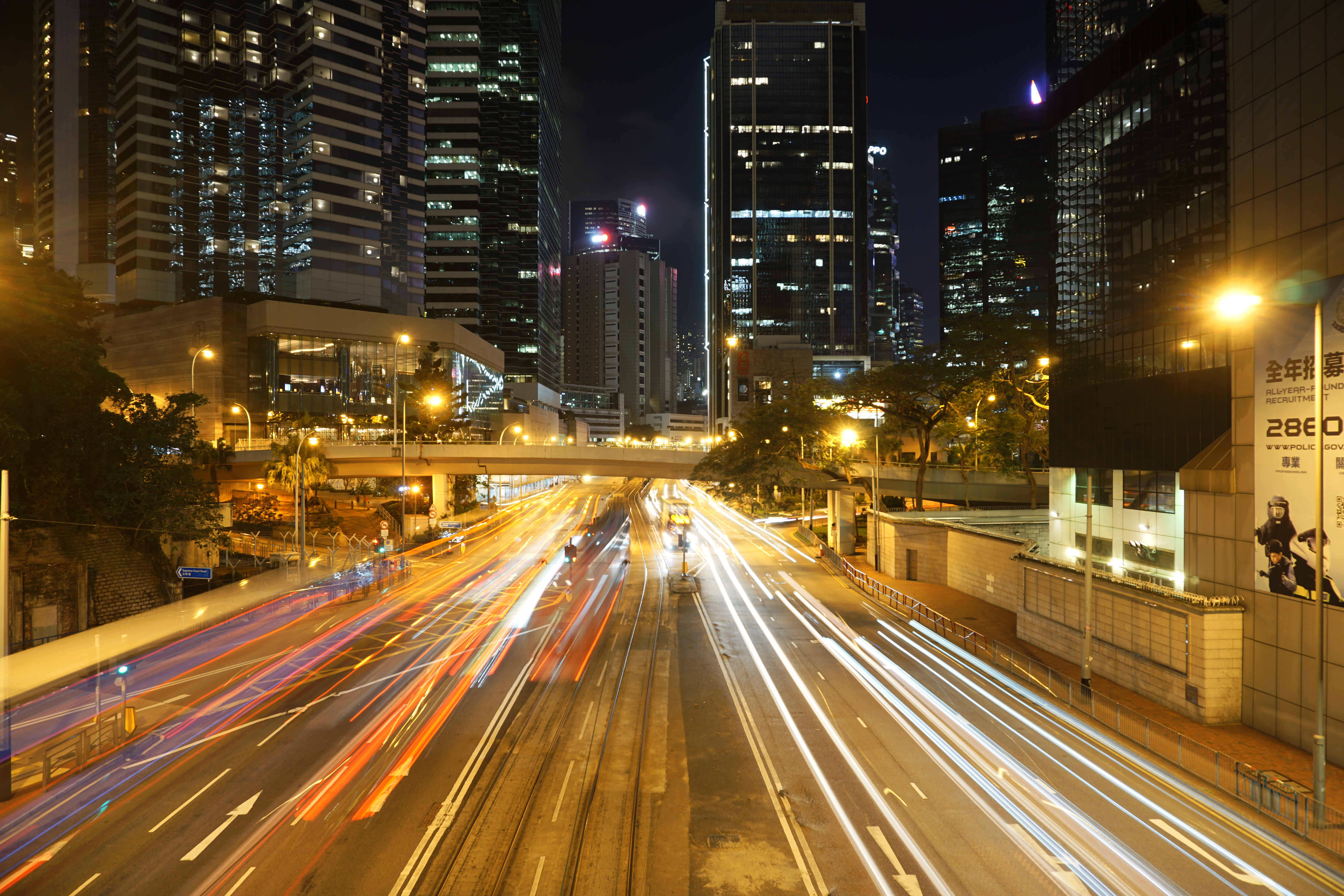 Queensway in Admiralty, Hong Kong.